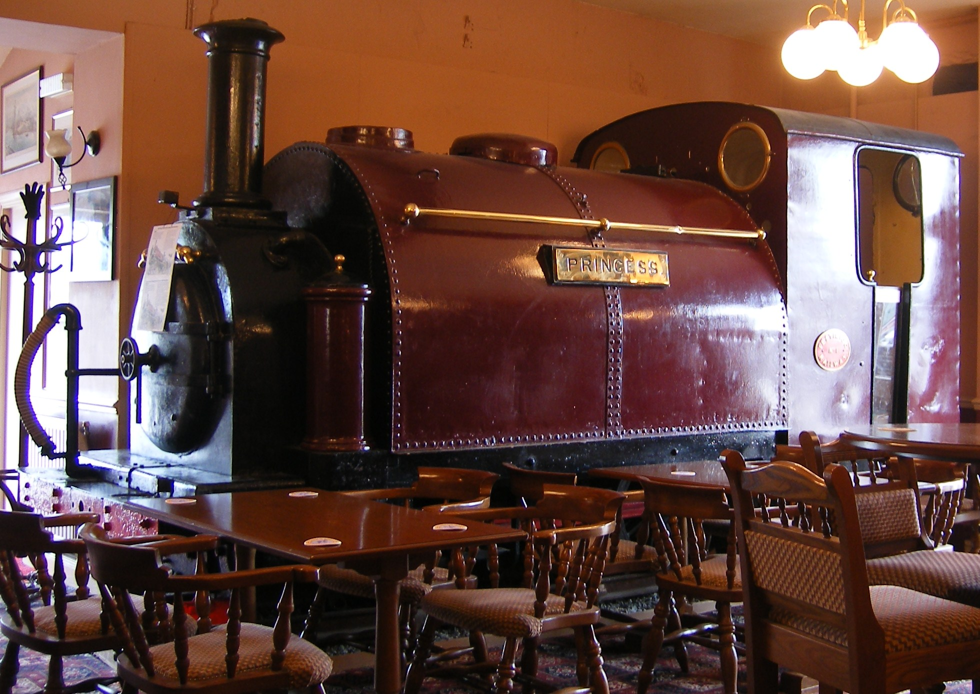 Ffestiniog Railway locomotive Princess on display in Spooners' café at Porthmadog Harbour railway station.